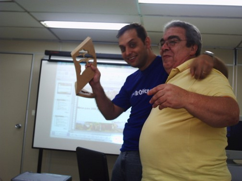 Claudio Filho and Julio Cesar Neves free software lider from Brasil. Rio de Janeiro.